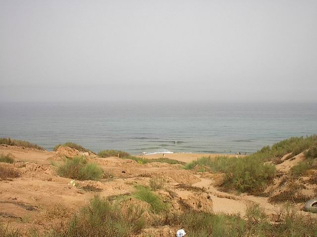 Permission is granted to copy, distribute and/or modify this document under the terms of the GNU Free Documentation License, Version 1.2 or any later version published by the Free Software Foundation; with no Invariant Sections, no Front-Cover Texts, and no Back-Cover Texts. Subject to disclaimers. Subject to disclaimers.